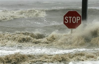 Waves crash against a stop sign on Beach Boulevard in Bay St. Louis, Miss. on Monday, Sept. 1, 2008, as Hurricane Gustav hits the Gulf Coast.